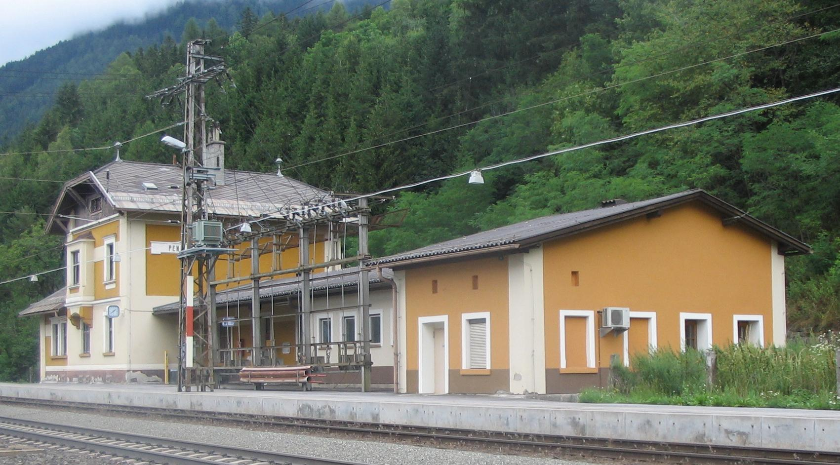 The train station in Penk, Gemeinde Reißeck, Bezirk Spittal an der Drau, Carinthia, Austria.